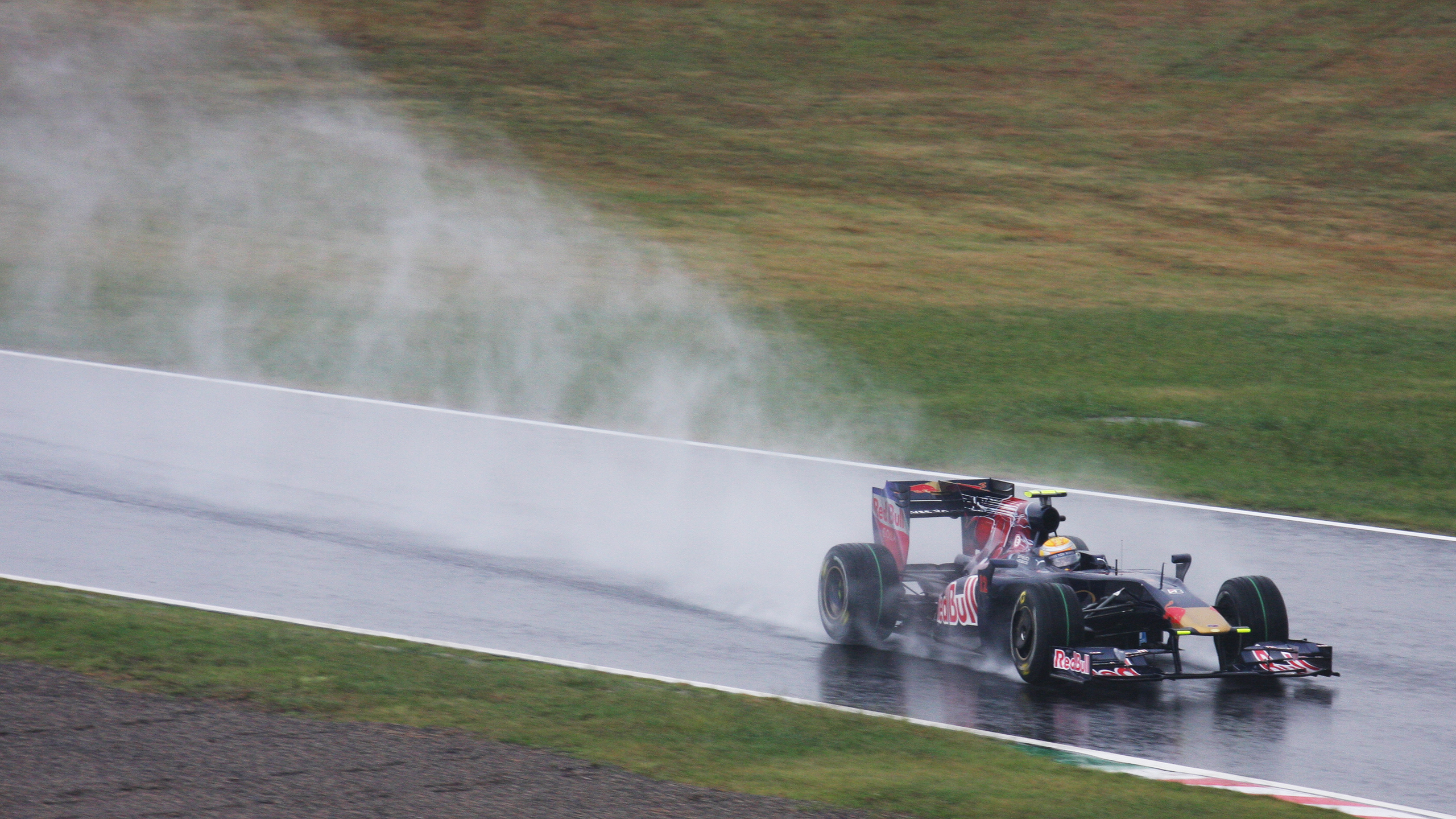 Formula One 2009 Rd.15 Japanese GP: Sébastien Buemi (Toro Rosso) running in Friday 2nd Free Practice session at the 2009 Japanese Grand Prix.